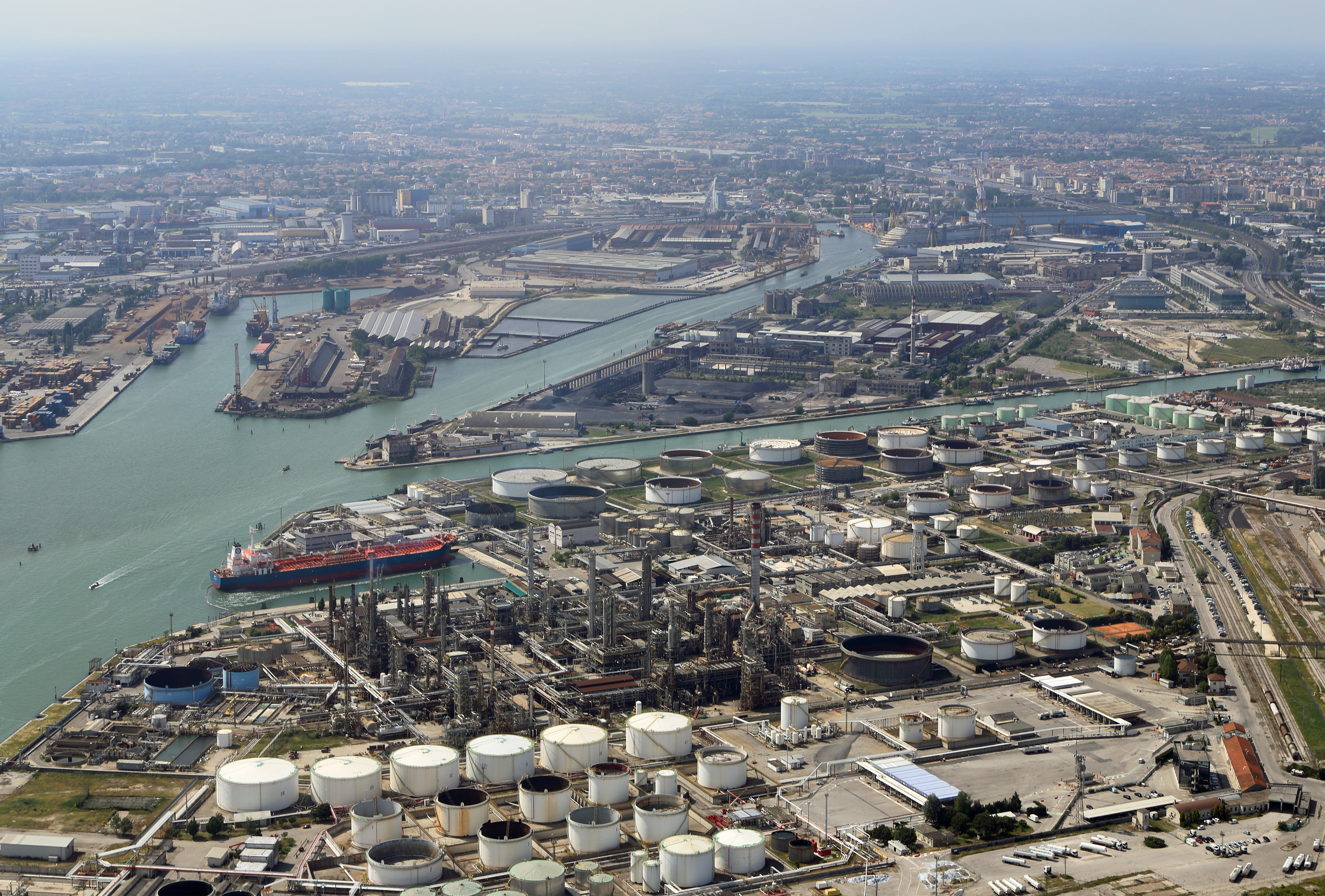 Venice (Italy): harbour and industrial zone of Marghera